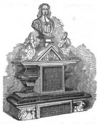 1839 drawing of monument in St Paul's Church, Hammersmith, to James Smith (1587-1667) of Hammersmith, Middlesex, was an Alderman of the City of London a member of the Worshipful Company of Salters and a Governor of Christ's Hospital in London, grandfather of Sir John Smith, 1st Baronet, of Isleworth